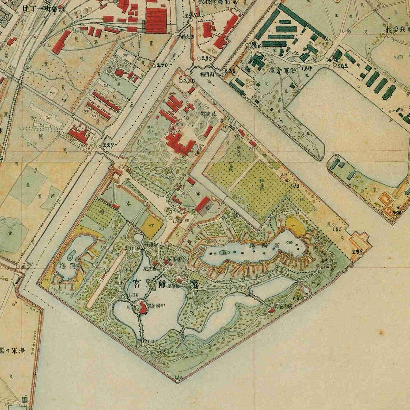 Tokyo Hama rikyû, deail of an old map